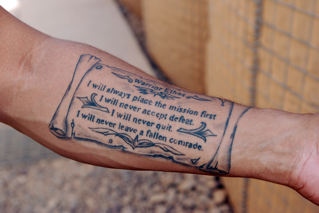 First Sergeant Aki Paylor, Echo Company, 1st Attack Reconnaissance Battalion, 10th Combat Aviation Brigade, had the Warrior Ethos tattooed on his arm while on leave from his current deployment to Iraq. "The Army is not just a job; it's a way of life," Paylor explained. "For me, the Warrior Ethos - that's who I am."